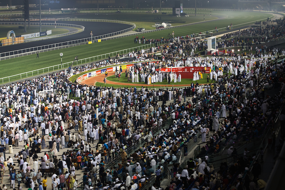 Al Tayer Motors | 2014 Dubai World Cup